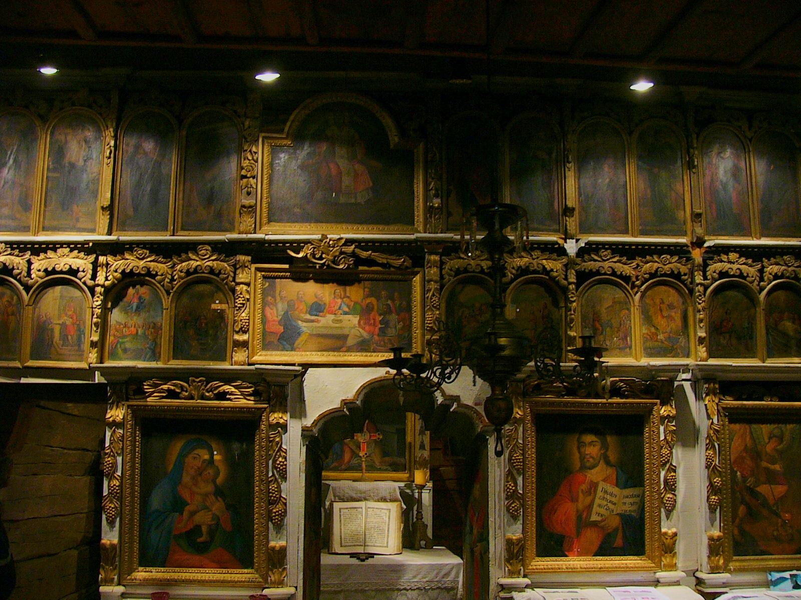 Ikonostas of wooden church Chrám svätého Michala Archanjela in Inovce